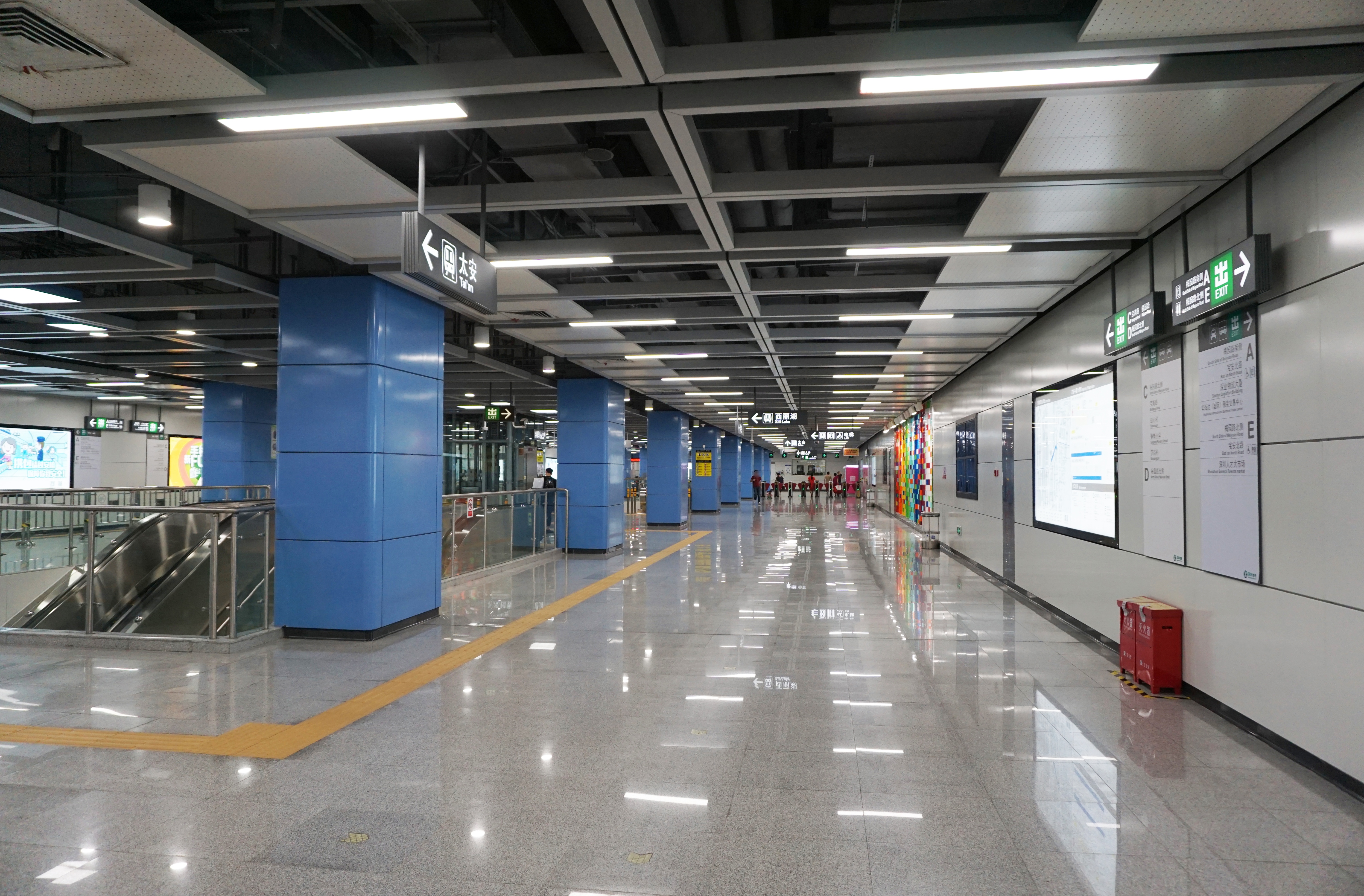 Sungang Station in Luohu District, Shenzhen.